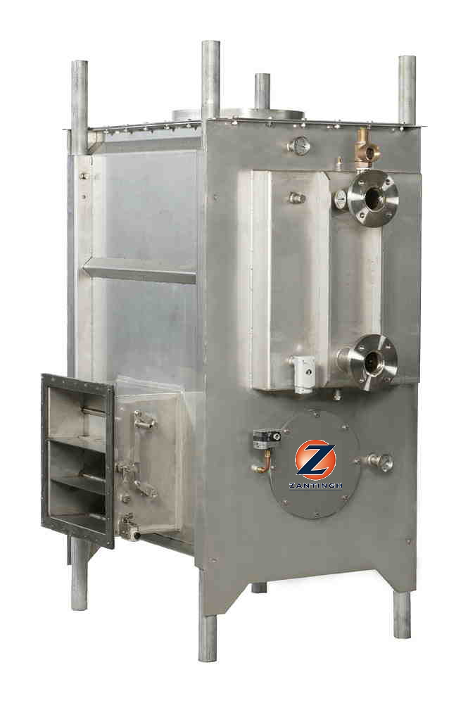 fluegascondenser